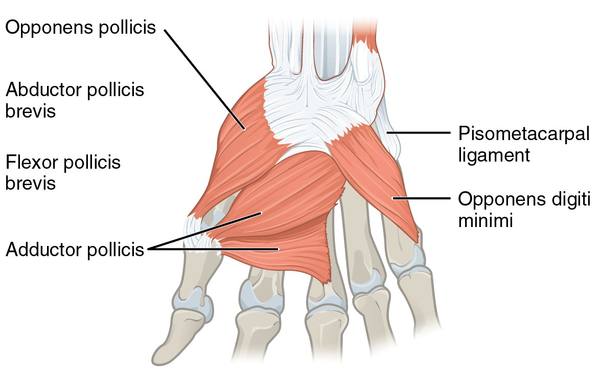 Based off: Based off